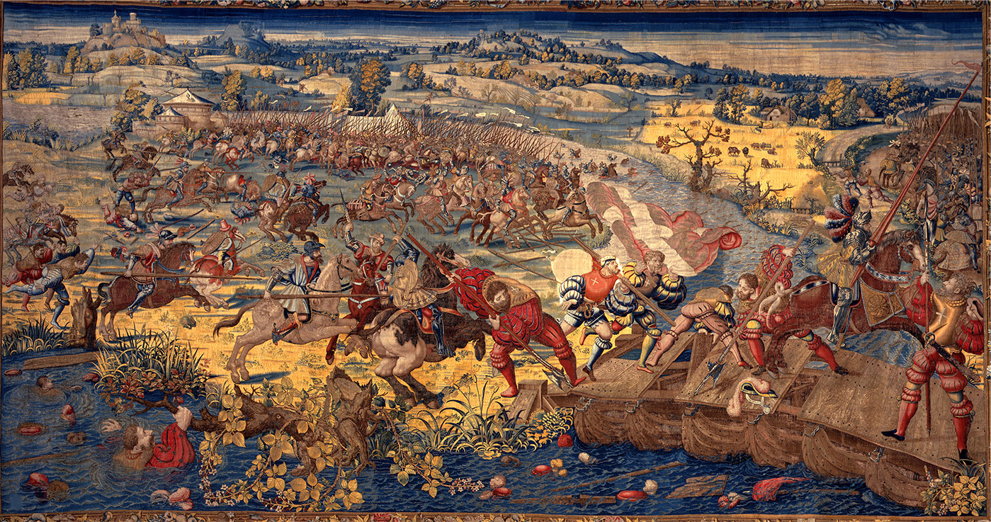 manufactured in Bruxelles